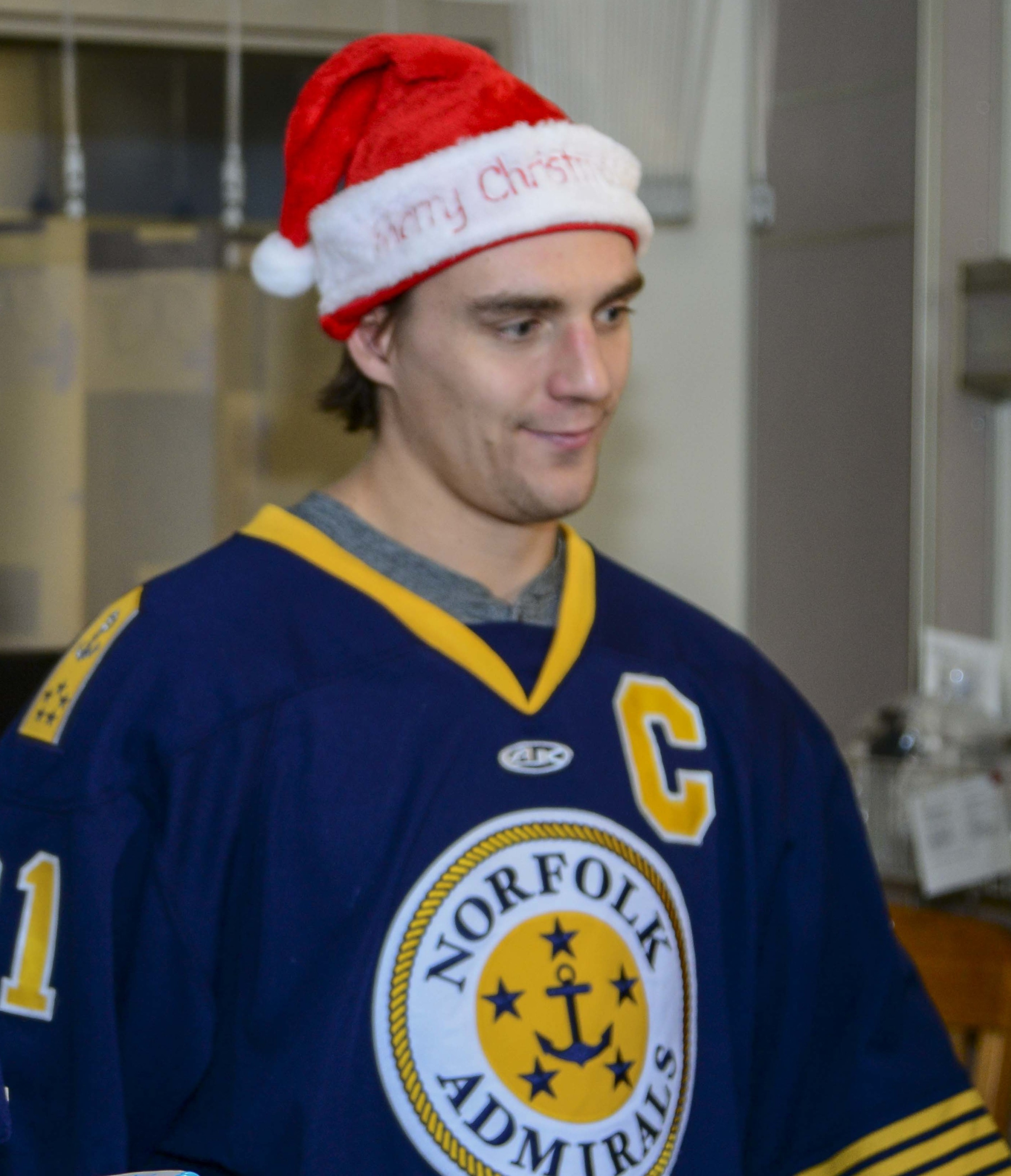 PORTSMOUTH, Va. (Dec. 19, 2019) – Josh Holmstrom, a forward for the Norfolk Admirals, autographs the journal of Kaylynn Garrett, 13, a patient in the Pediatric Ward at Naval Medical Center Portsmouth (NMCP), during a visit on Dec. 19. The Admirals are a professional hockey team who play in the East Coast Hockey League (ECHL) and are based in Norfolk. (U.S. Navy photo by Mass Communication Specialist 2nd Class Kris R. Lindstrom/Released)